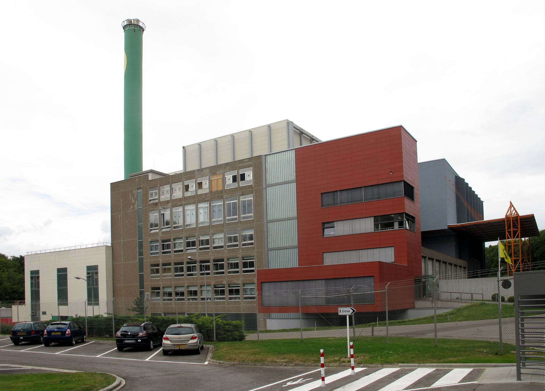 Waste incinerating plant Sidor near Leudelange, Luxembourg